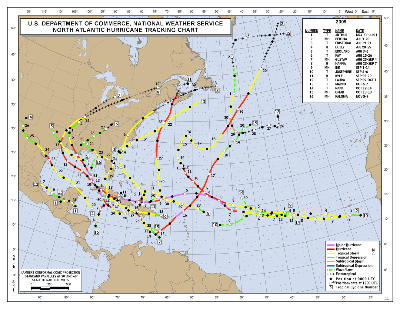 Season summary provided by NOAA of the 2008 Atlantic hurricane season.